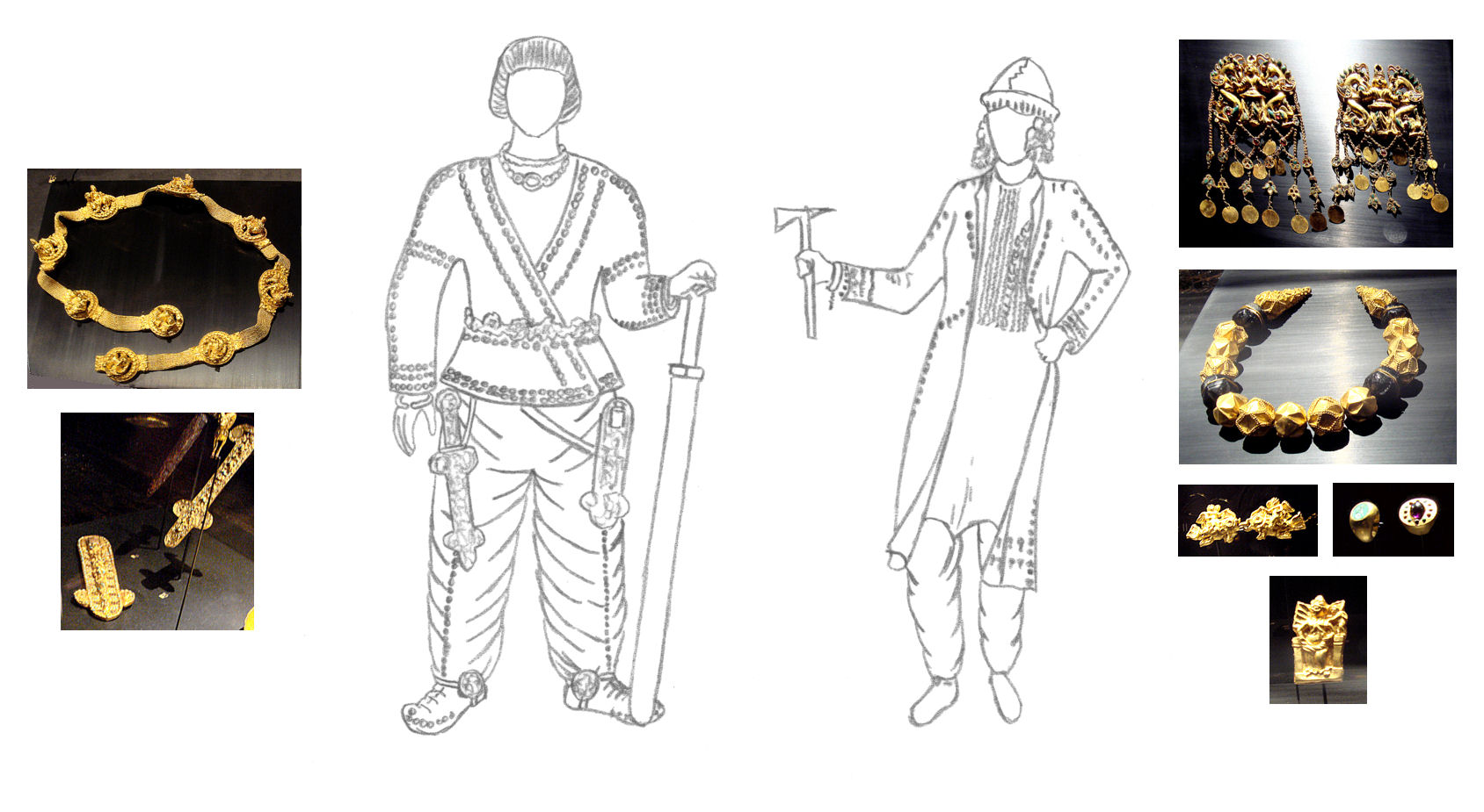 Reconstitution of Tillia Tepe tomb 4 (for the man), and Tillia tepe tomb 2 (for the woman). Self-made drawing (Reference V. Sarianidi, in "Les Saces", Iaroslav Lebedinsky), personal photographs.